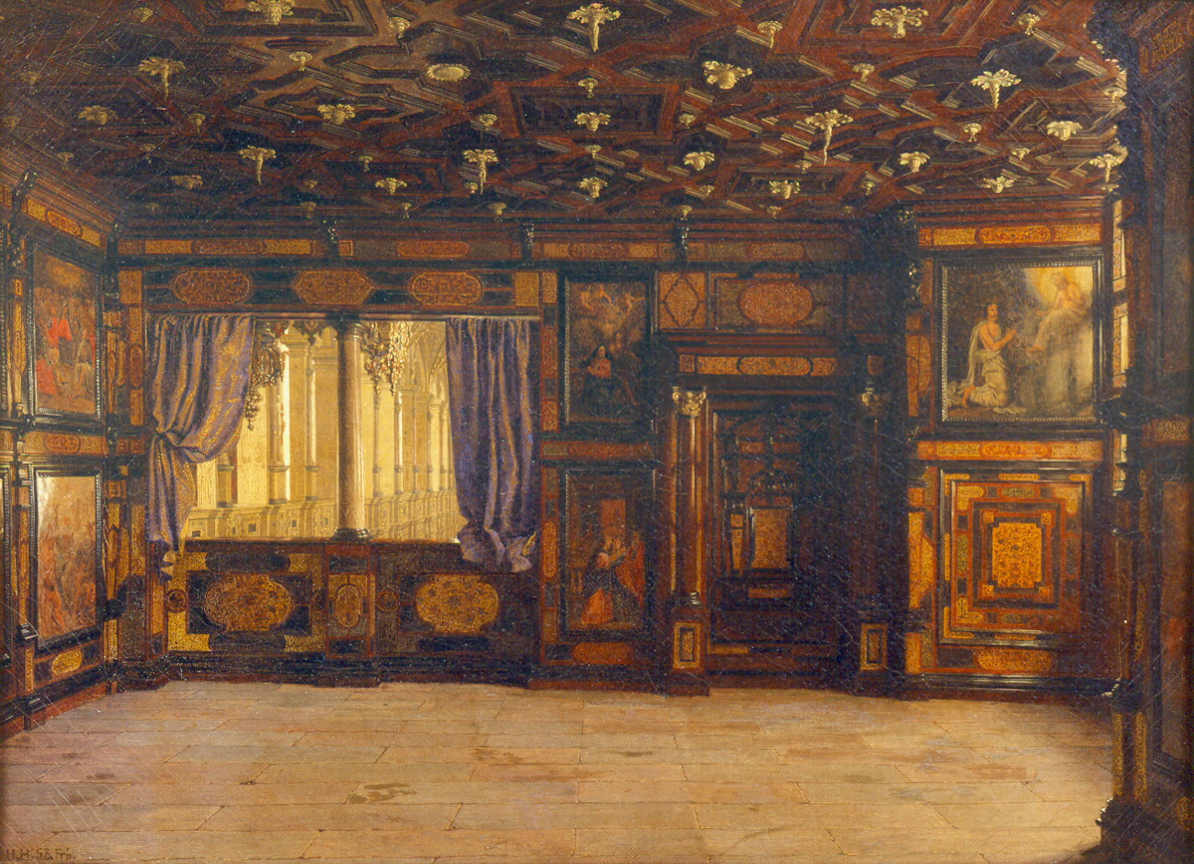 Painting of Christian IV' Prayer Chamber from memory, as seen before the fire of 1859. Painting at Frederiksborg Castle.